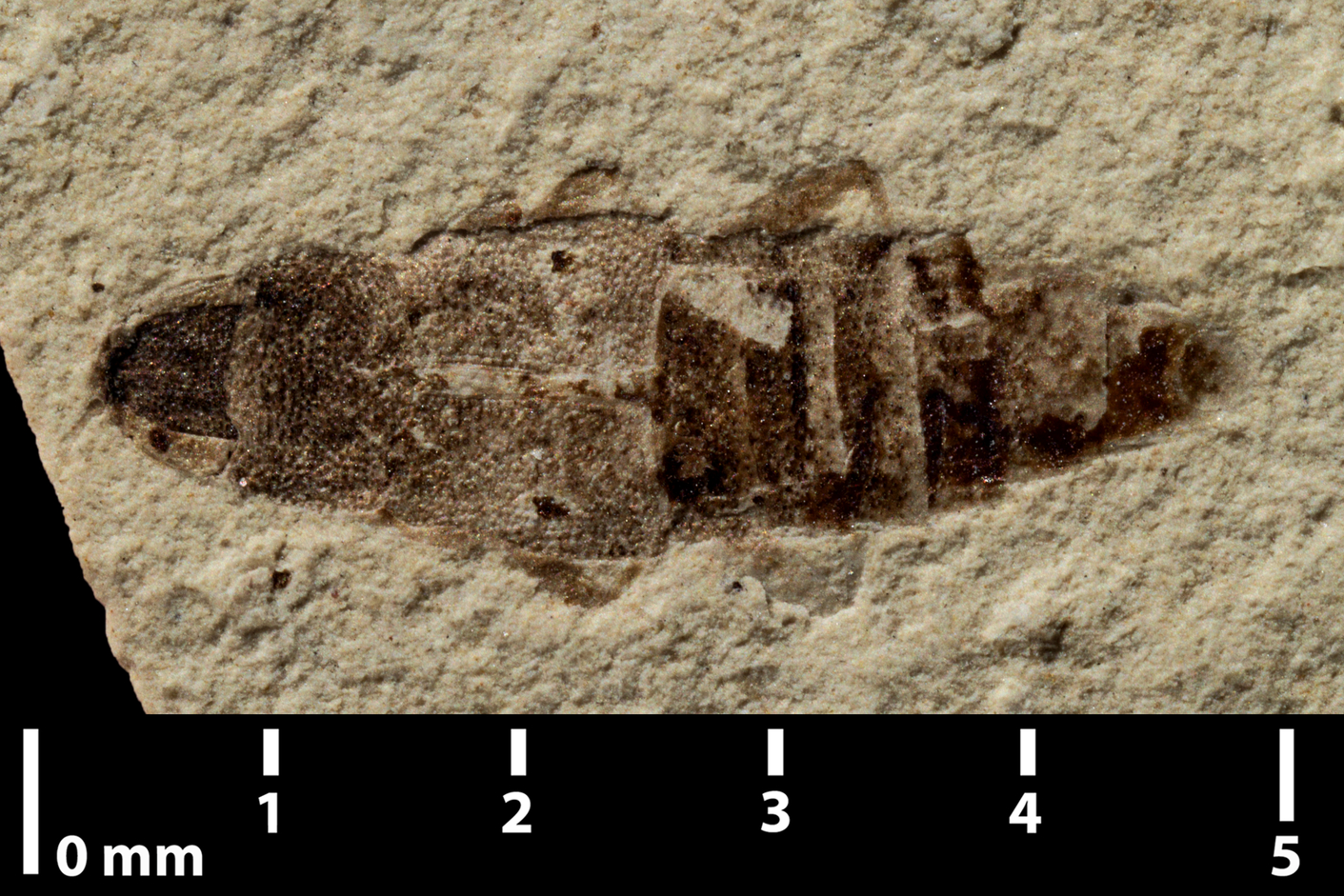 The Eocenostenus fossilis holotype specimen with direct lighting. Priabonian, Eocene; Monteils Formation, Monteils, Gard, Languedoc-Roussillon, France Muséum national d'Histoire naturelle specimen MNHN.F.A50393